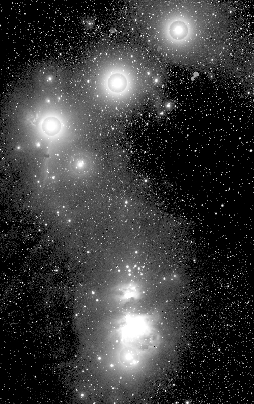 IC 434, Horsehead Nebula